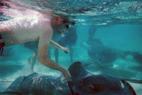 Touching a stingray